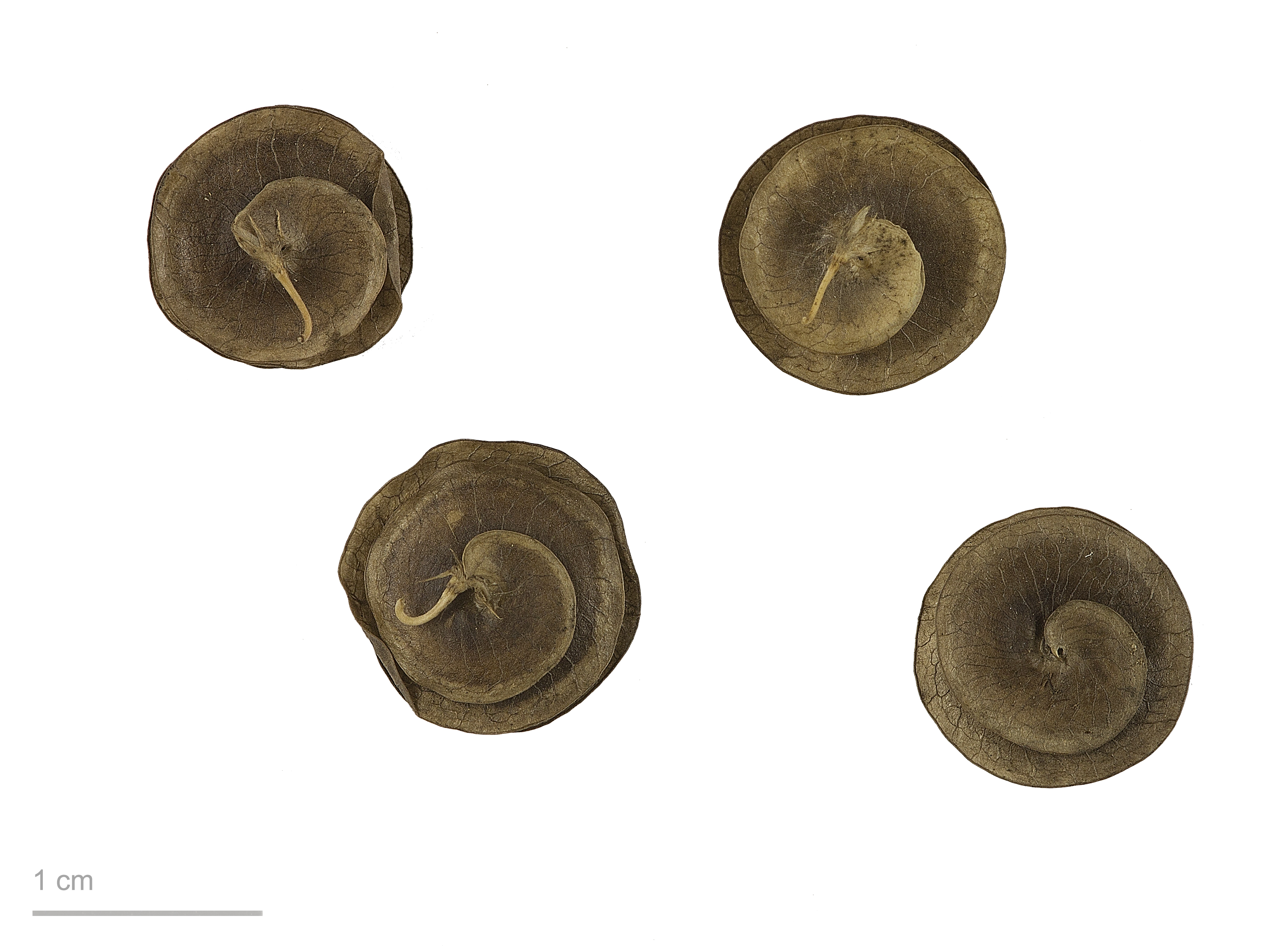 button clover, fruits and seeds